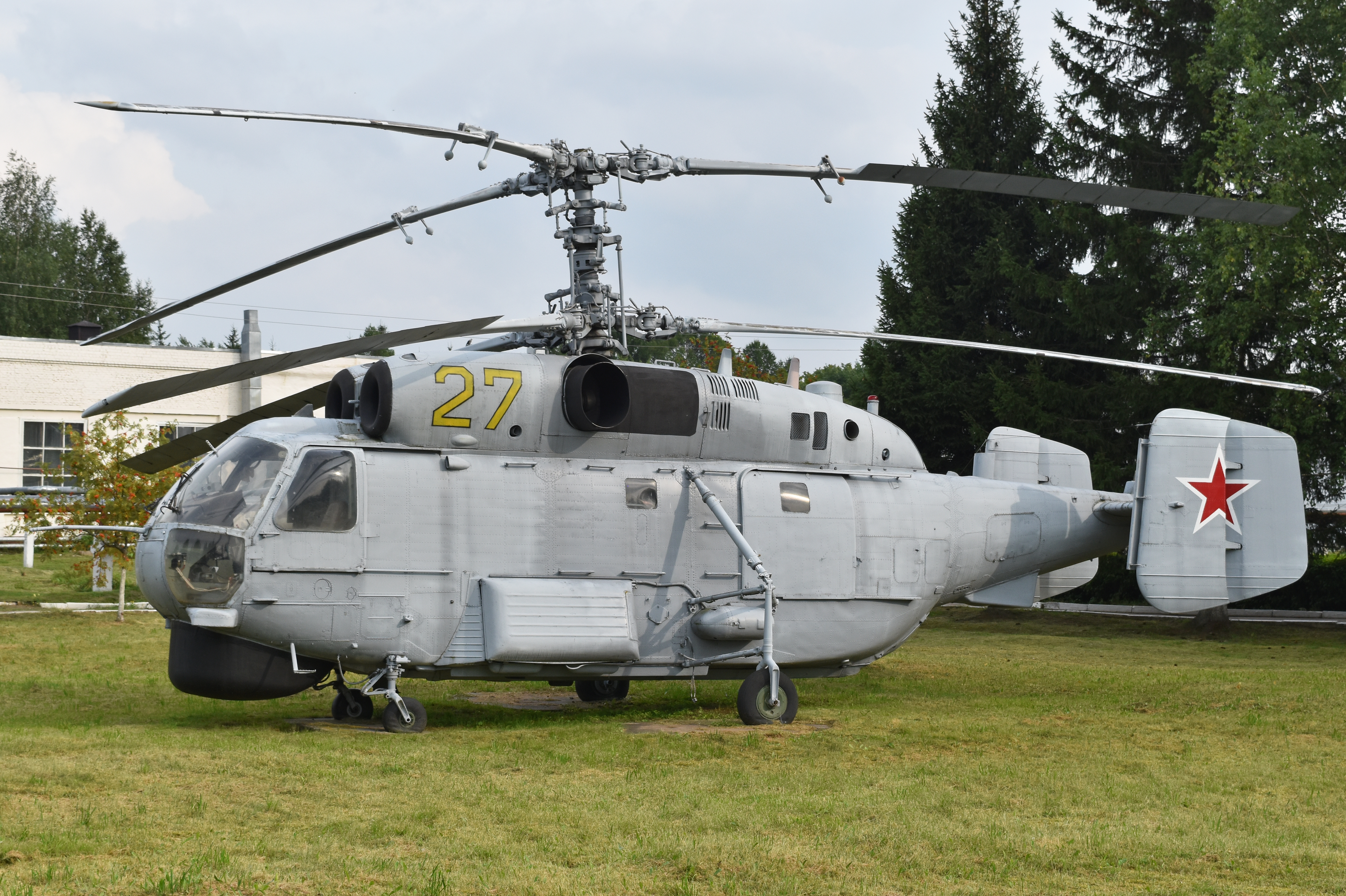 c/n unknown. ’27 yellow’ is a false bort code, it was previously ’15 yellow’. NATO codename ‘Helix-A’. On display as part of the museum at the 121st Aircraft repair plant. Starry Gorodok, Kubinka Area, Moscow Oblast, Russia. 23rd August 2017